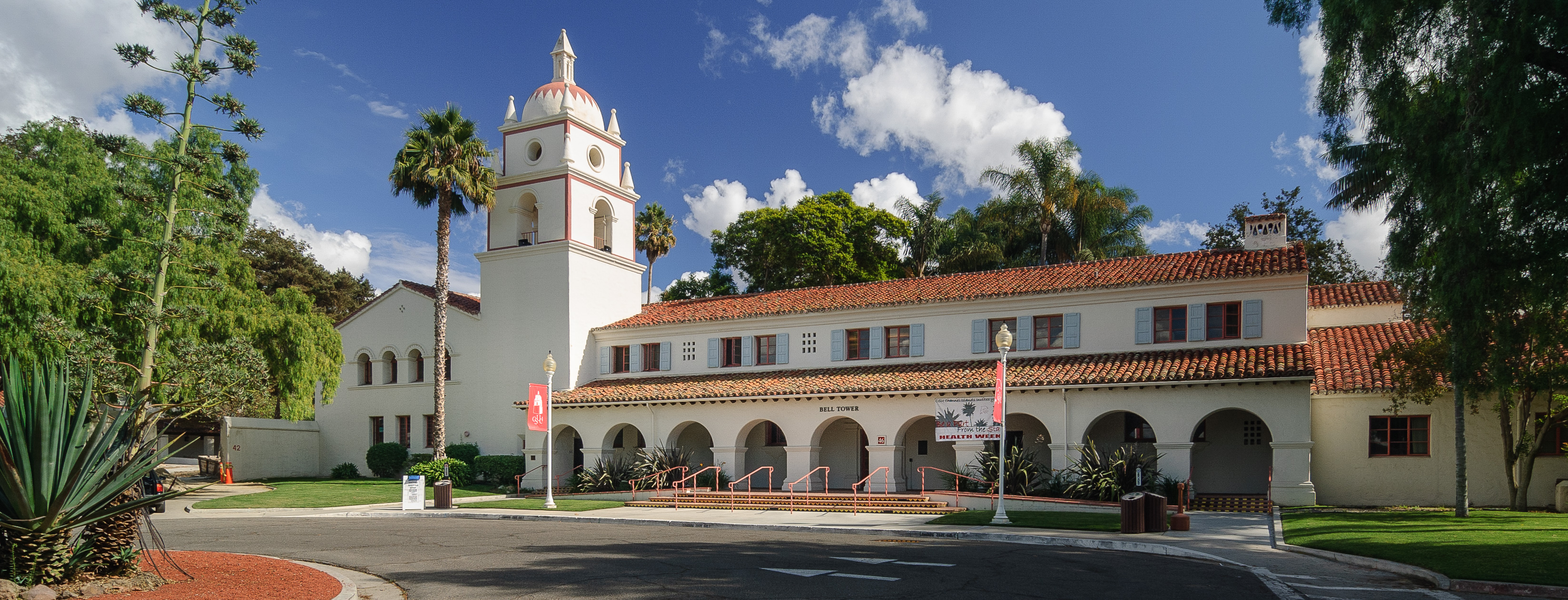 The Bell Tower Building of California State University Channel Islands in Camarillo, California. Formerly Camarillo State Hospital. Photo 2007.